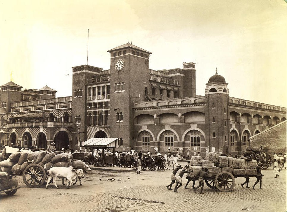 Original description: "Sacred cattle and coolies push and pull great carts to the loading platform of the Howrah railroad station in background, on of the city's two stations. Howrah is on the west bank of the river, and Sealdah, the other station, is in another section of Calcutta on the east side." The South Asia Section of the Van Pelt Library, University of Pennsylvania recently acquired from a bookdealer a photograph album consisting of 60 photographs of Calcutta taken most likely between 1945-1946. The photographer, Mr. Clyde Waddell, also provided the interesting glosses accompanying each photograph. Several attested copies of this work has emerged including one with a 'title page' held by the Southeastern Louisiana University in Hammond, Louisiana. Mr. Waddell was a military photographer. Many of his captions sound like annotations that would be found in a typical military magazine. The album begins with several general long shots of Calcutta and ends with a picture of dhobi-s (washermen) washing clothes. The text accompanying the last photograph also sounds as if the author intended to finish with that picture of one of the "great mysteries of India." The annotations have been included because of their intrinsic interest not only to the photographs but to a 'typical' American impression of India at this time.